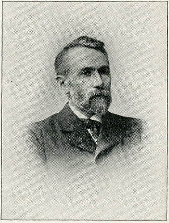 Hendrik Willem Bakhuis Roozeboom (1854-1907), Dutch chemist and Amsterdam professor